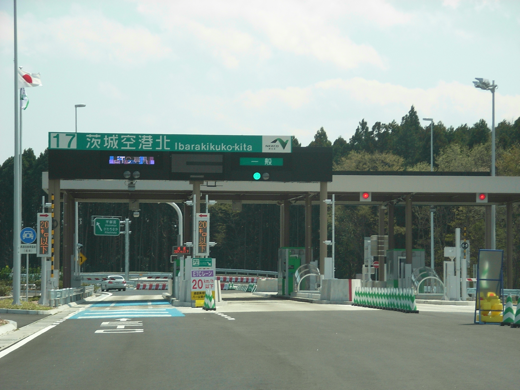 Ibarakikuko-kita IC on Higashi-kanto EXPWY (Torihata,Ibaraki-mashi,Higashiibaraki-gun,Ibaraki-ken,JAPAN)